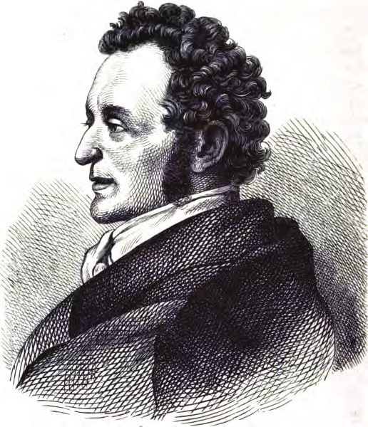 Portrait of Swiss poet Salomon Tobler (1794-1875)